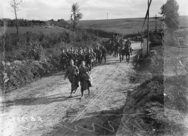 28 September 1918: American infantry marching into Templeux, to join the Australian troops in the upcoming Battle of St. Quentin Canal.